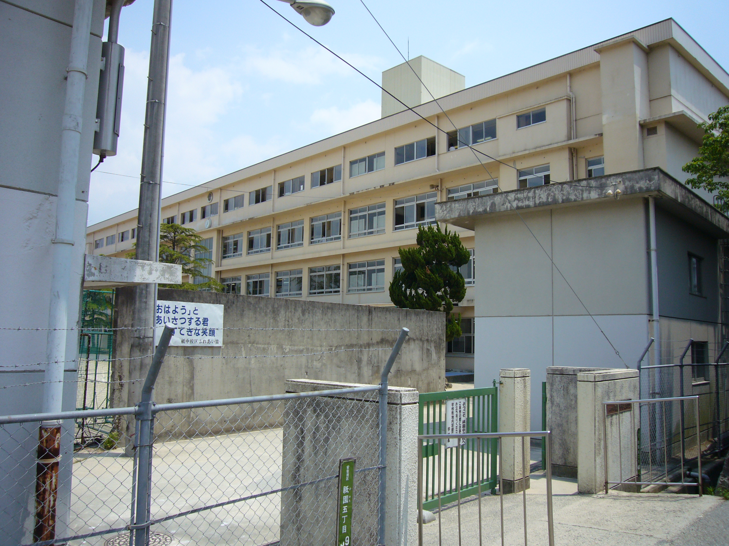 The west side photo of Hiroshima city Gion junior highschool